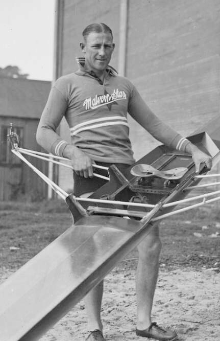 Olympic sculler Bobby Pearce dragging his scull from the water, New South Wales, ca. 1930s